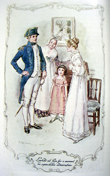 Illustration for ch.38 of Mansfield Park, in the Series of English Idylls, published by J.M Dent & Co. (London) and E.P. Dutton & Co. (New York). Fanny looked at him for a moment in speechless admiration.